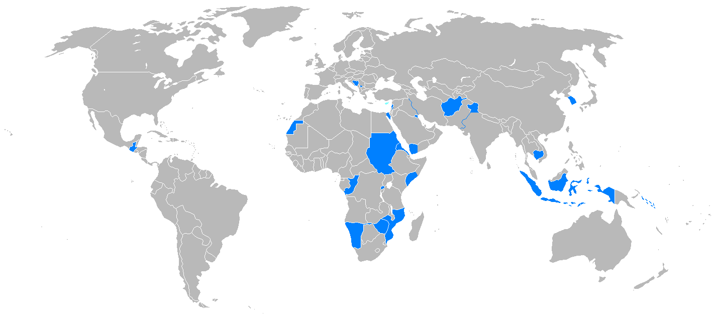 Areas and countries in which Australian peacekeepers have served since 1945. The map is based on that in John Coates' Atlas of Australia's Wars and was developed from Image:BlankMap-World.png.